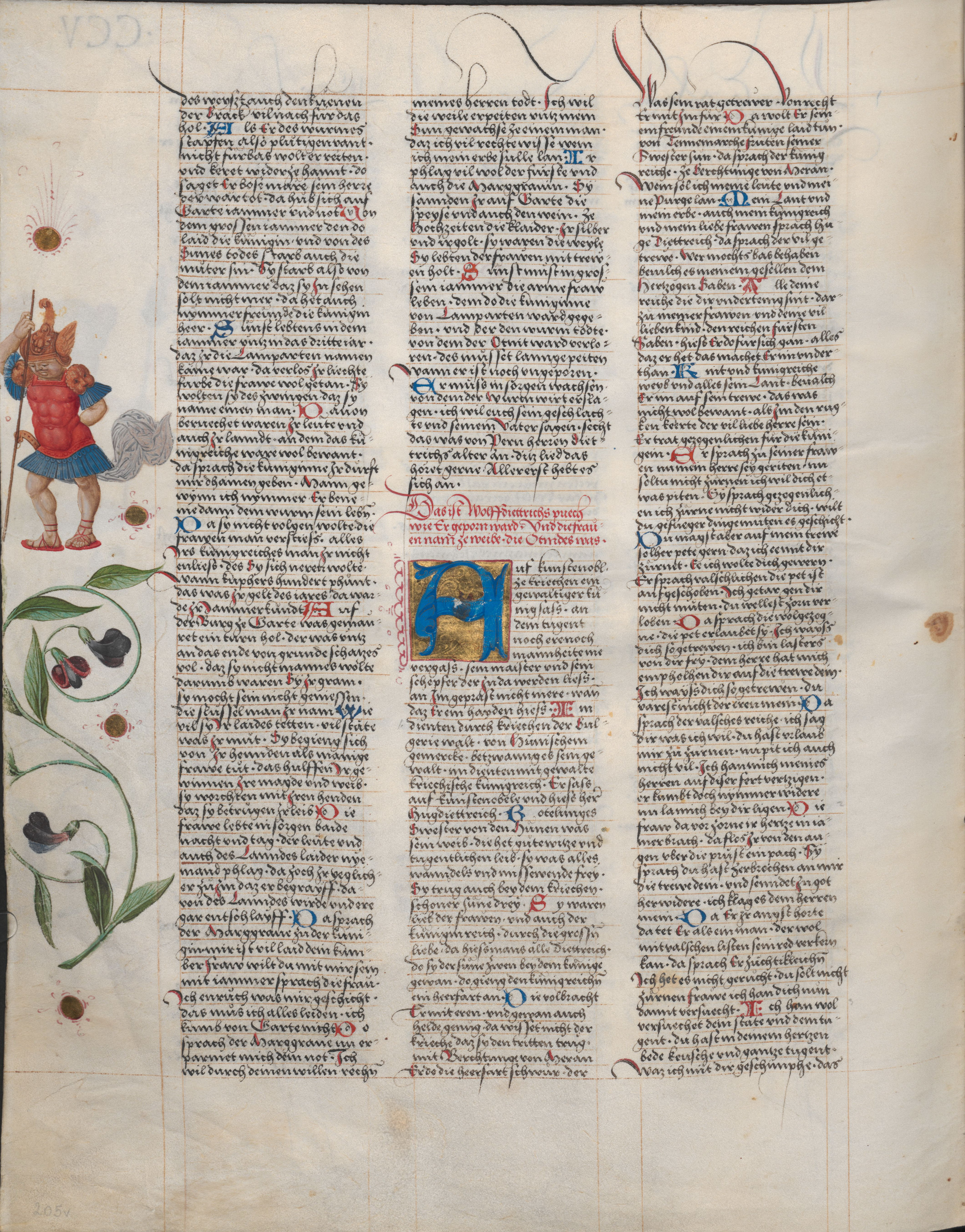 The Ambraser Heldenbuch, folio 220v with the start of Wolfdietrich